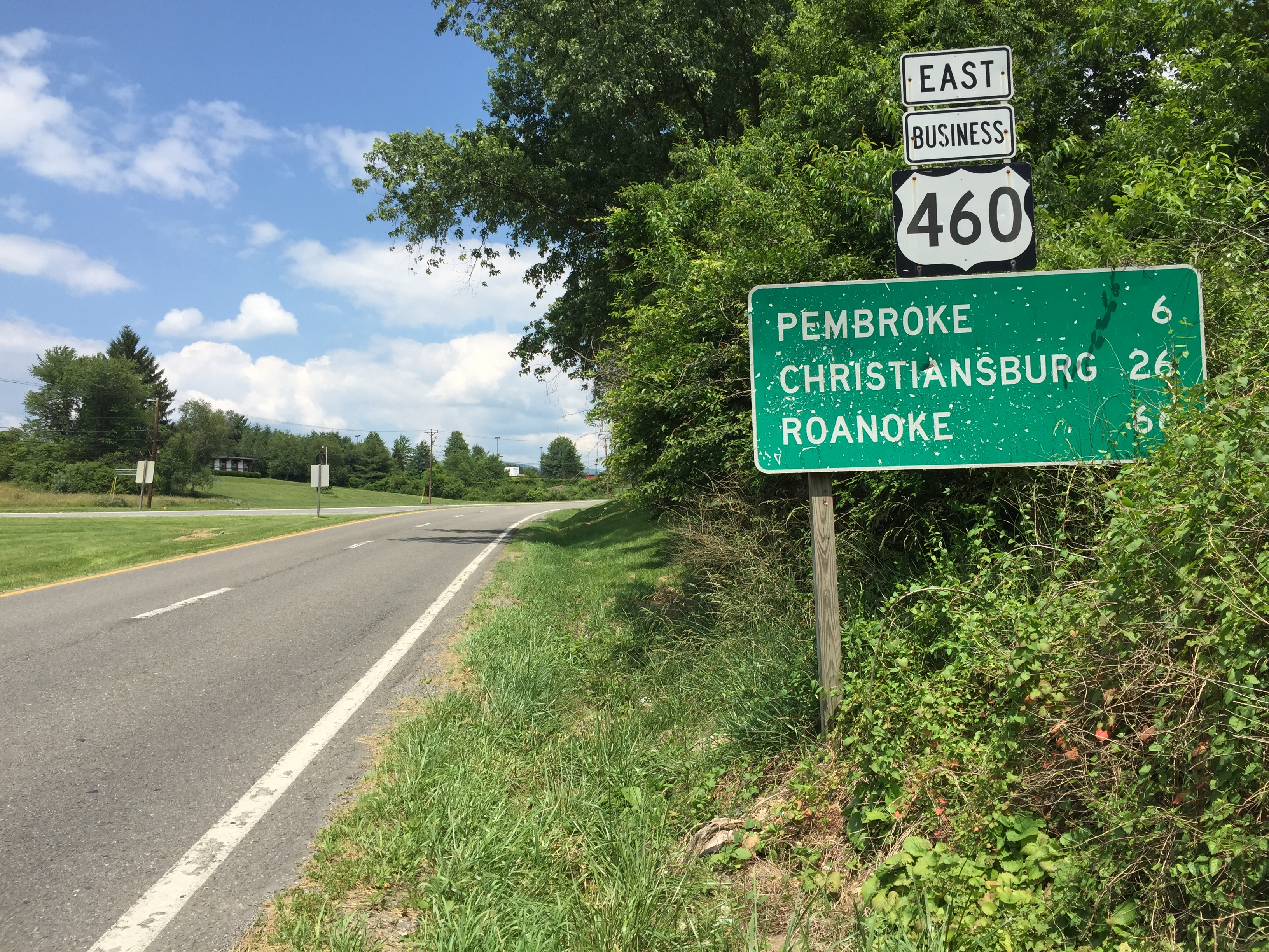 View east along U.S. Route 460 Business (Wenonah Avenue) between Hartley Way and Birchlawn Circle in Pearisburg, Giles County, Virginia